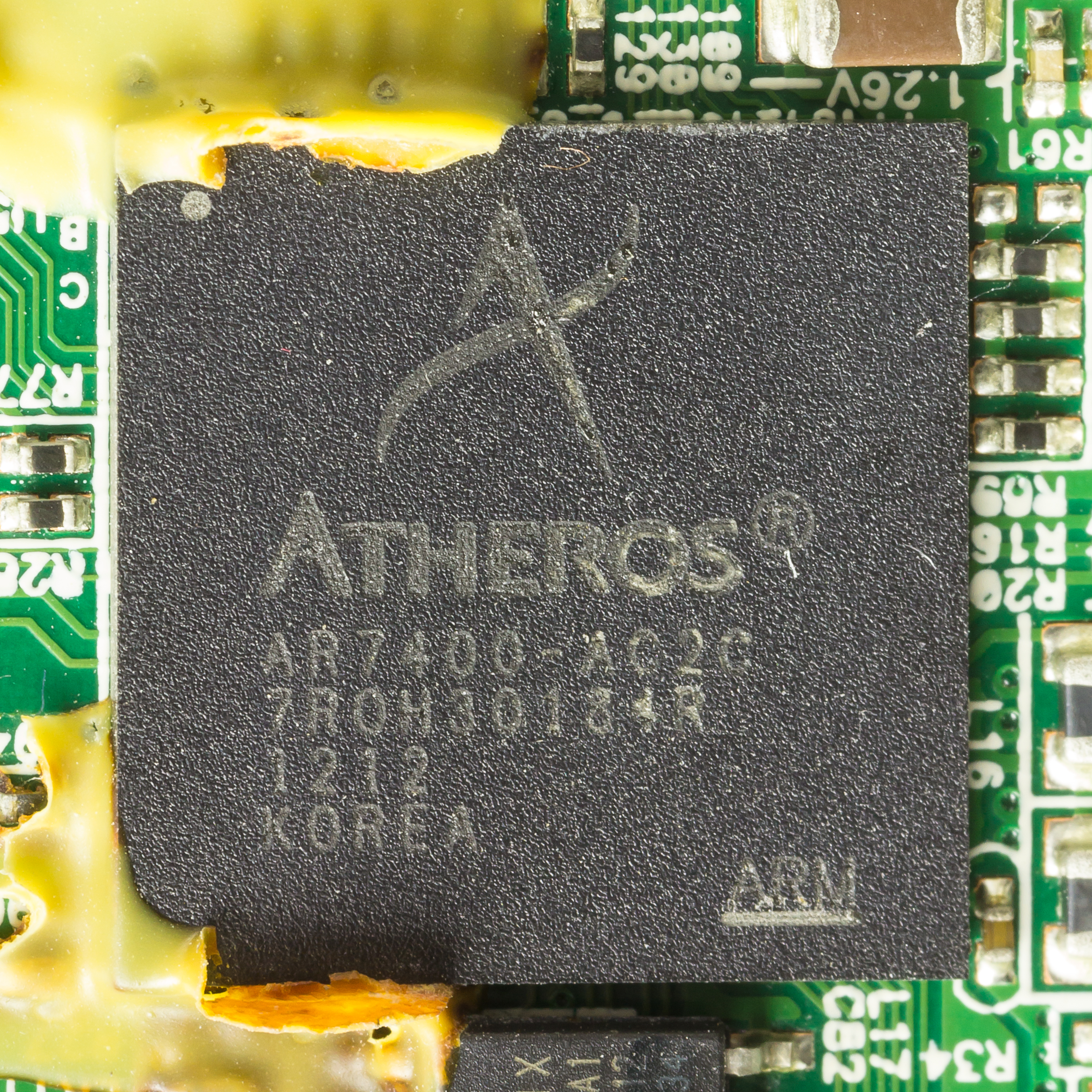 KraftCom CoaxLine Adapter CN-KE502M - Atheros AR7400-AG2C - HomePlug® AV MAC/PHY Transceiver (ARM11)